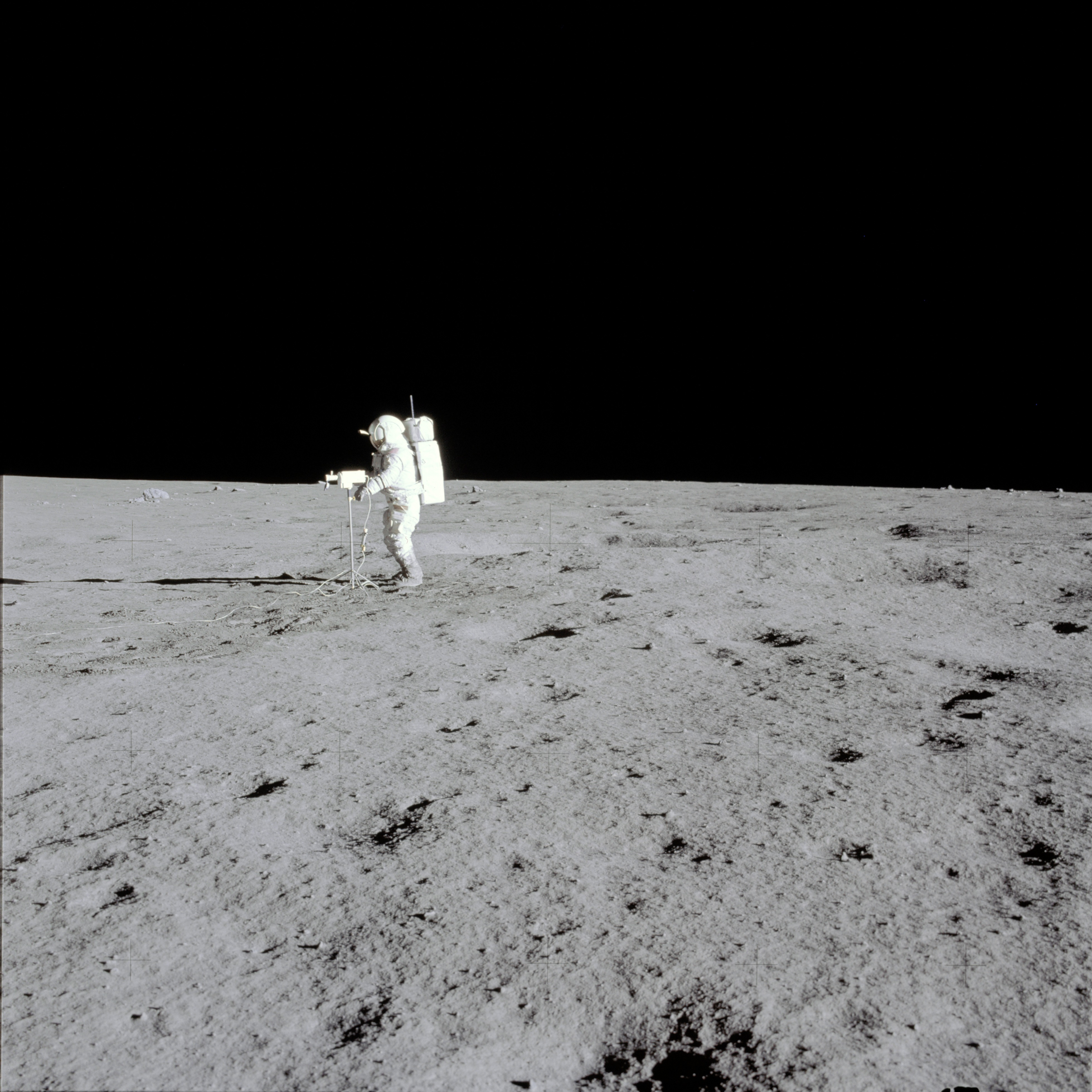 Astronaut Edgar D. Mitchell, lunar module pilot, makes a pan with the lunar surface television camera during an extravehicular activity (EVA) on the moon. This photograph was taken by fellow astronaut Alan B. Shepard Jr., commander.